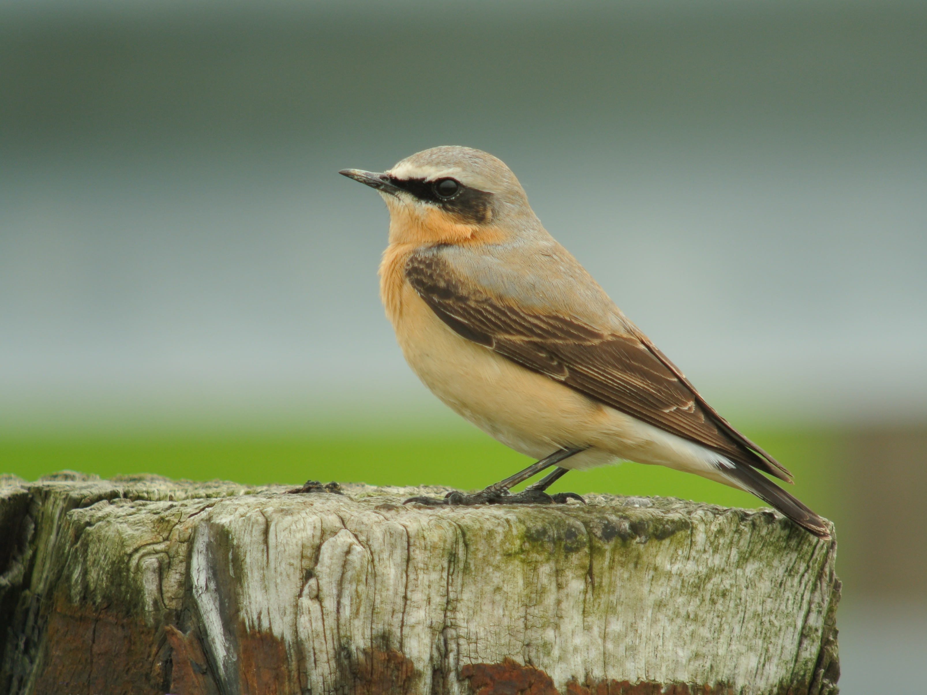 Near-coastal location, colour pattern, tameness, and season of observation all suggest this may be a bird of the Greenland sub-species (Oenanthe o. leucorhoa). But a definitive identification would only be possible based on body and wing measurements. Digiscoping with Swarovski ATM 80 HD 30 X, Nikon 1V1 + 10-30 mm lens (Adapter DCB)